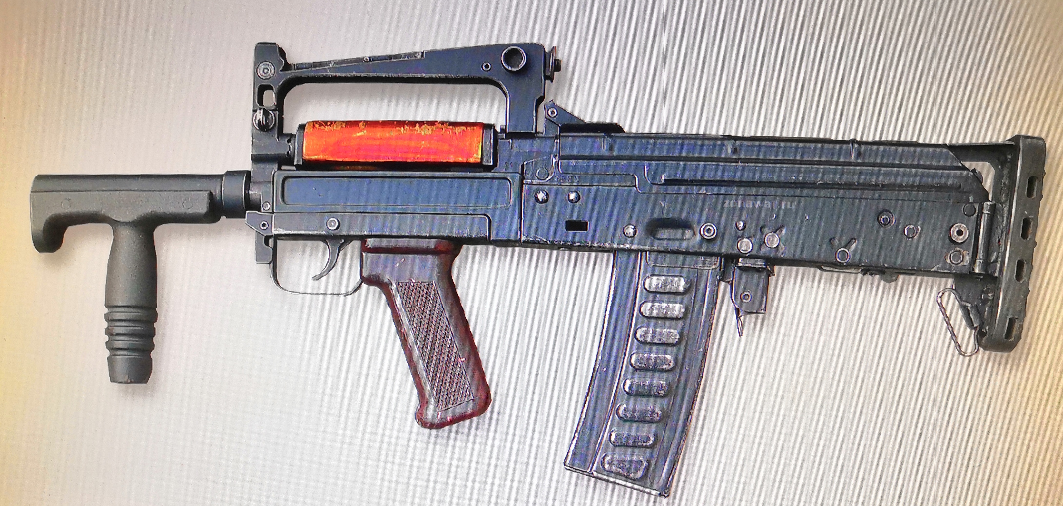 Bullpup style Russian assault rifle specially developed by TsKIB SOO.